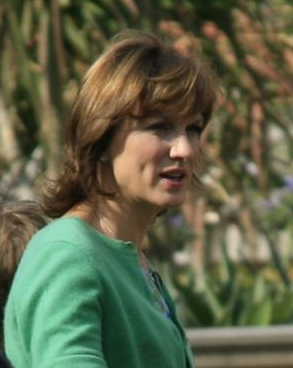 crop of Fiona Bruce from photo of filming of Antiques Roadshow at the British Museum